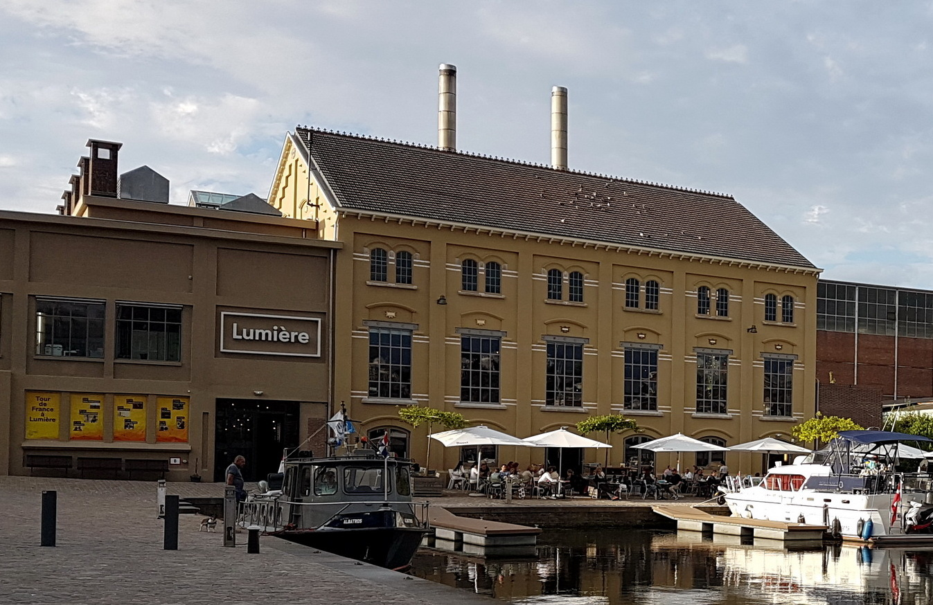 la ciotat